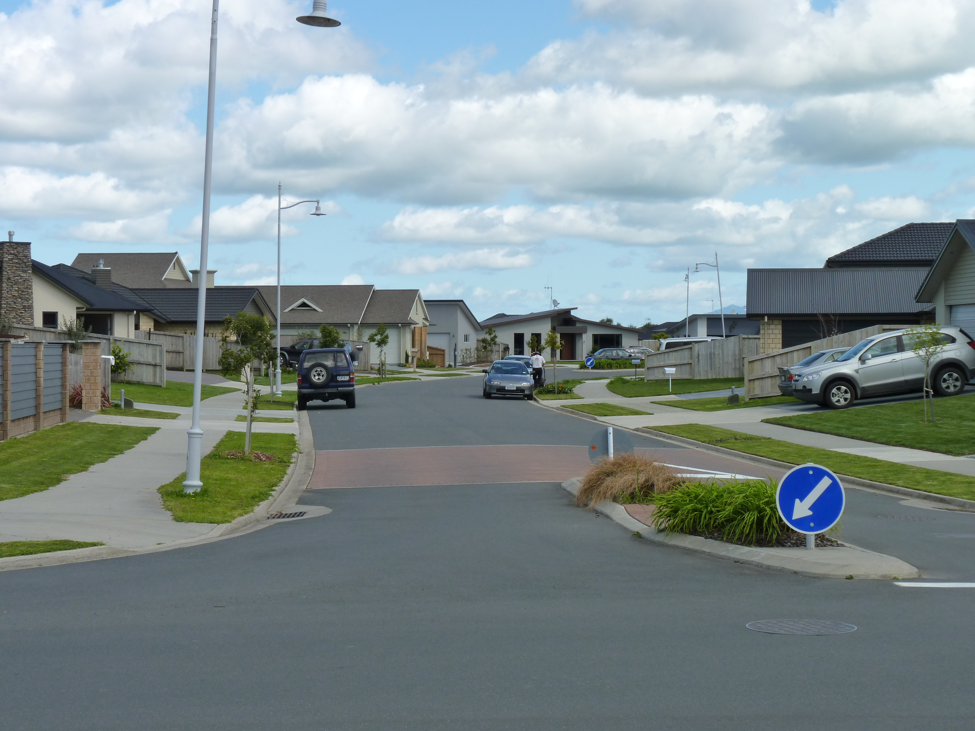 Ashmore, northeast Hamilton.